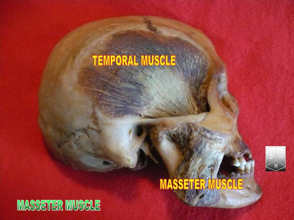 Masseter muscle